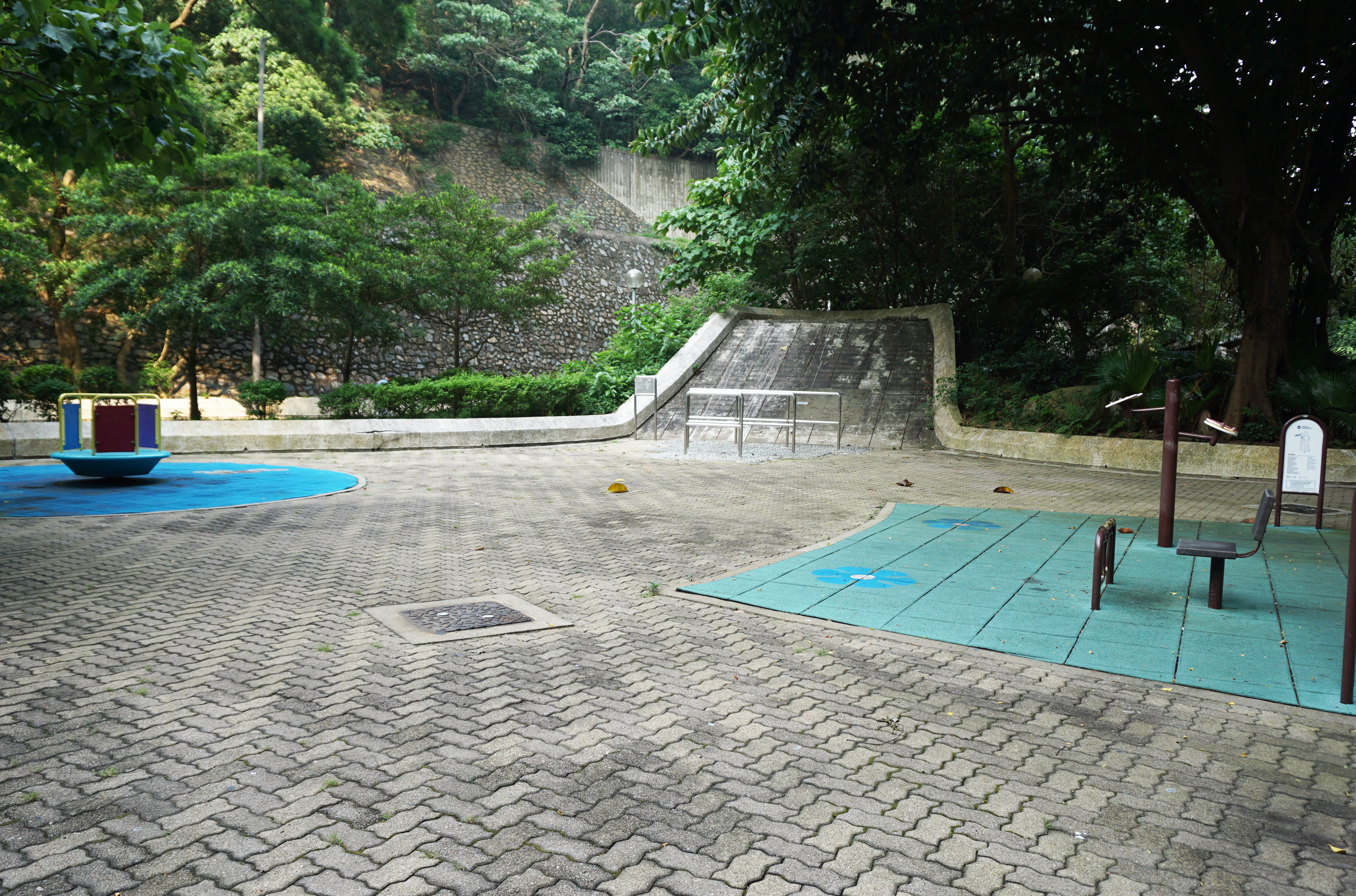 Wah Kwai Estate in Pok Fu Lam, Hong Kong.